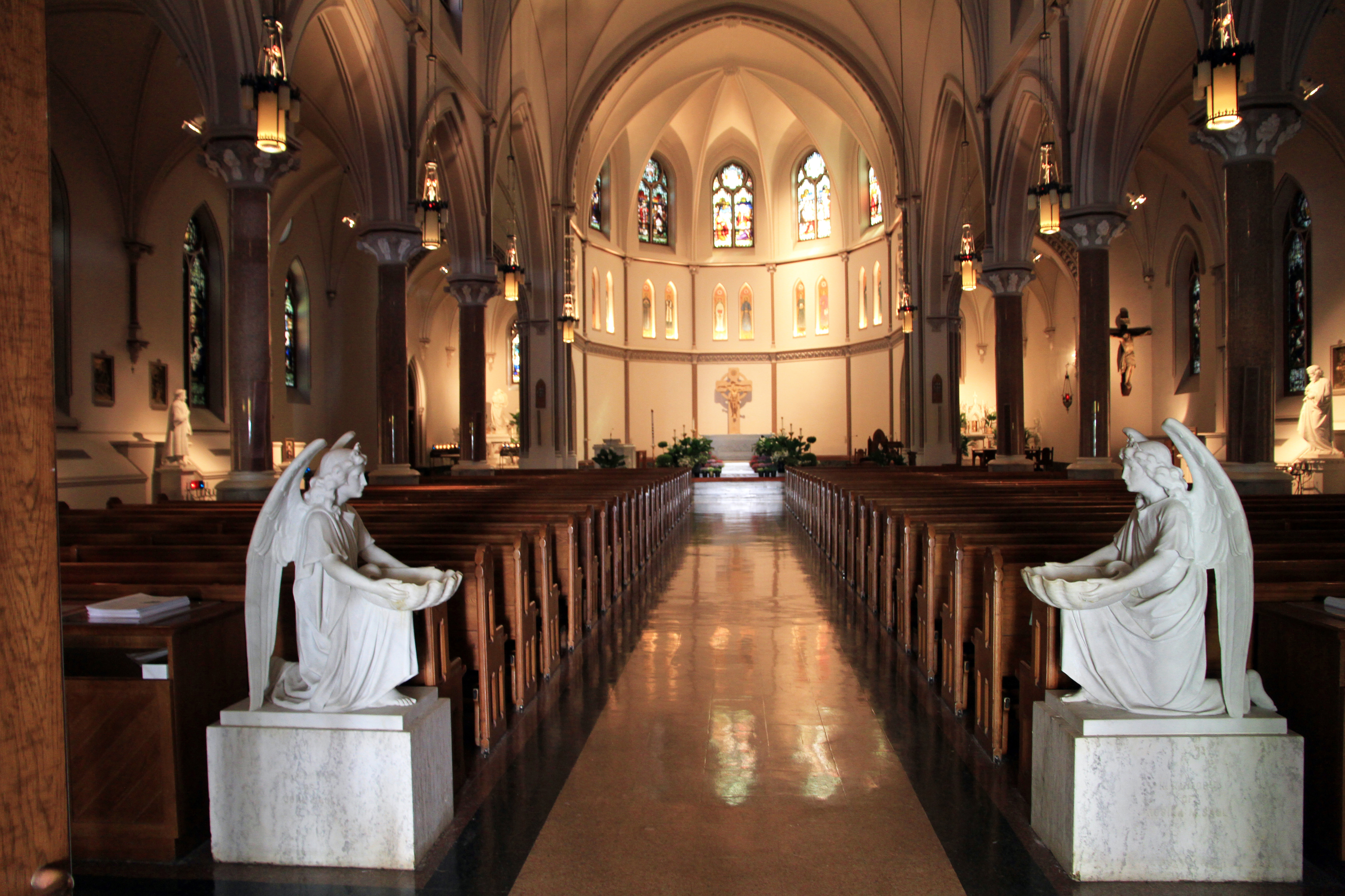 St. Patrick's Catholic Church